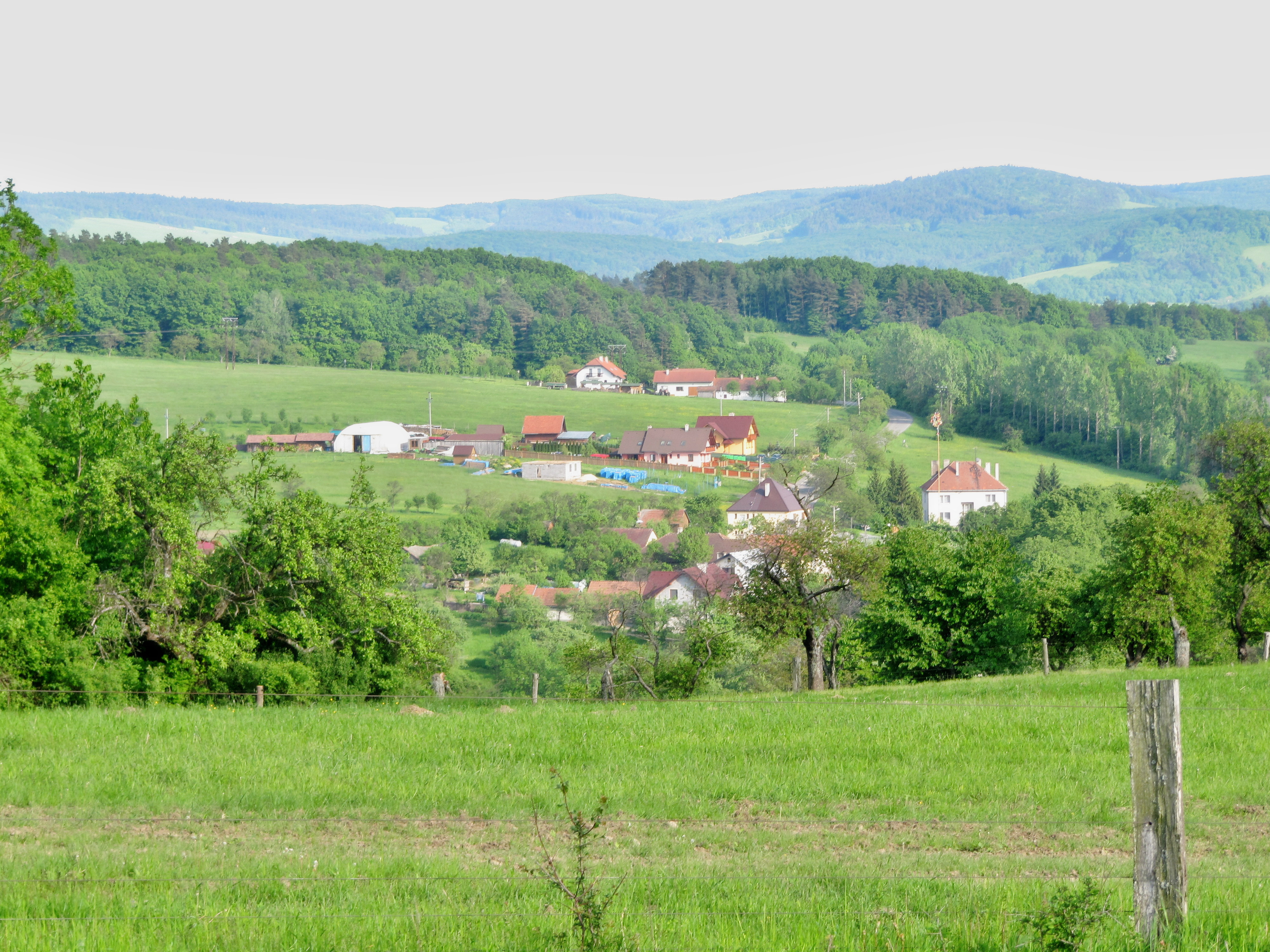 Rudimov, Zlín District, Czech Republic.